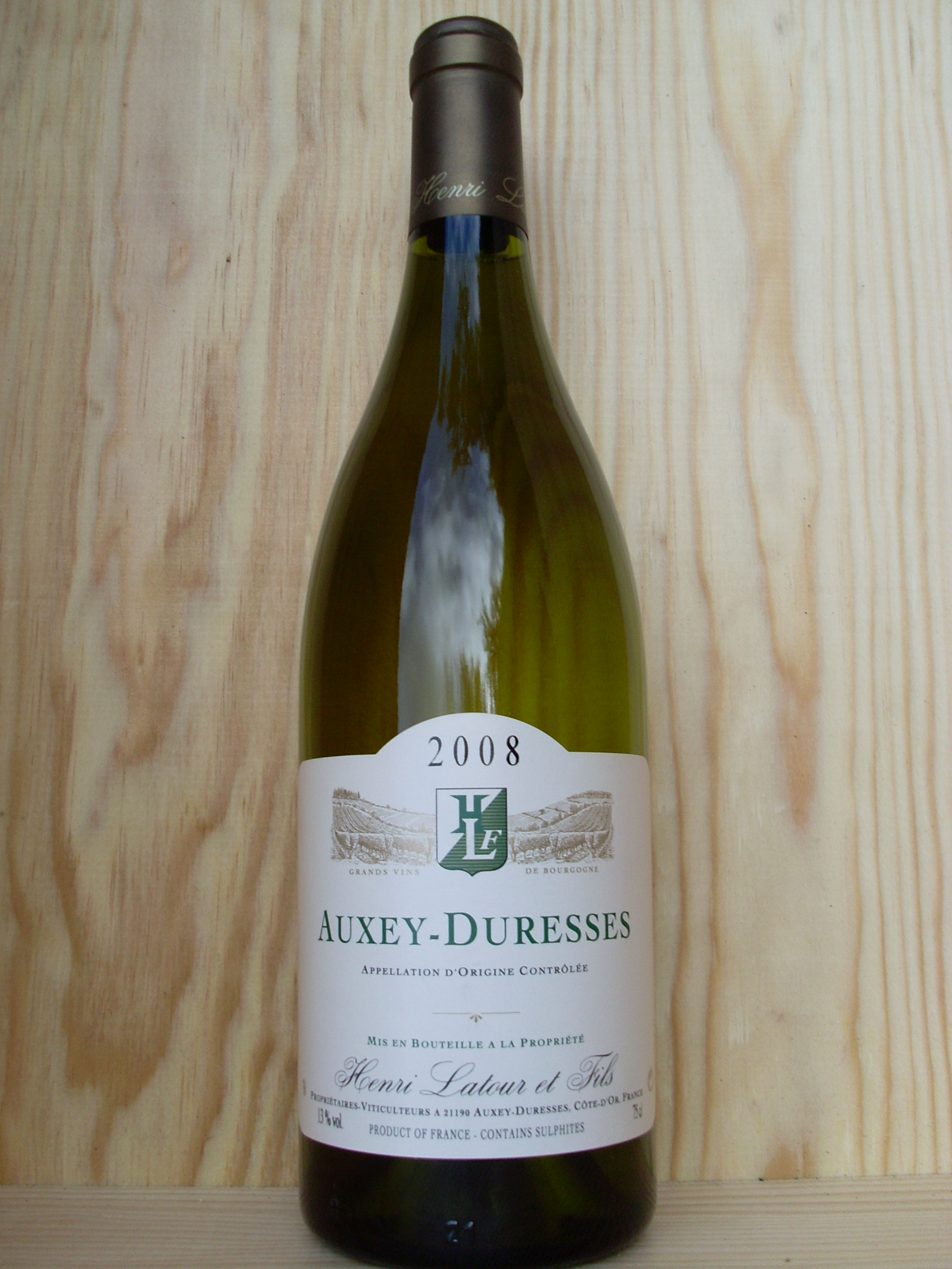 A bottle of the French wine Auxey Duresses from the Burgundy wine region of Côte de Beaune. The blanc is made from Chardonnay.